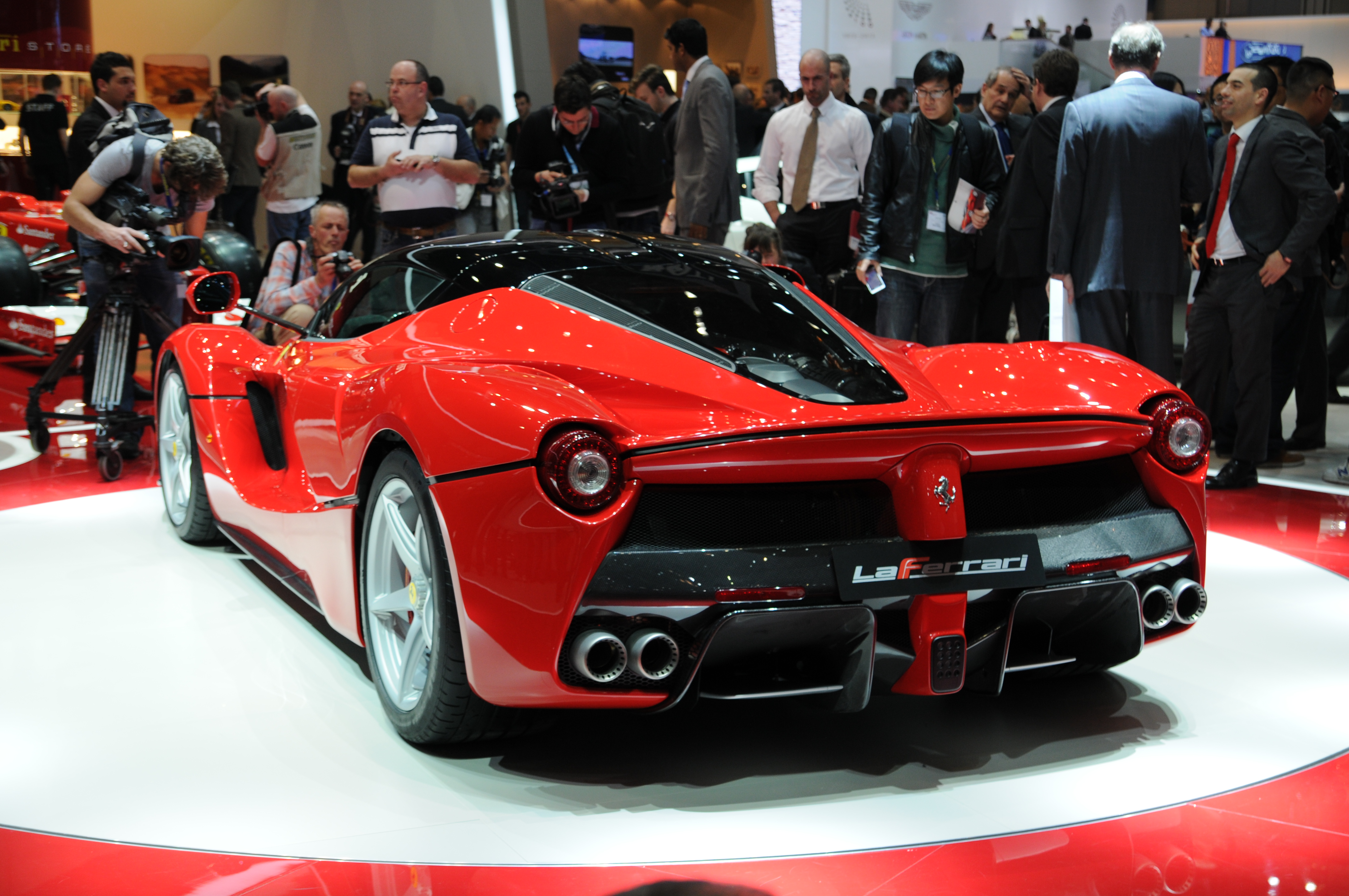 LaFerrari at the Geneva Motor Show 2013 (photo taken on the first press day which was the World Premiere of this car)